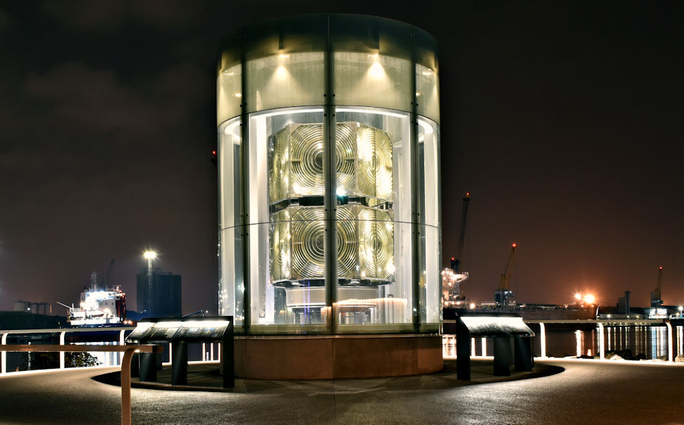 The Great Light (night view), Titanic Quarter, Belfast (November 2018) A night view of the internally-lit Great Light on the Titanic Walkway.